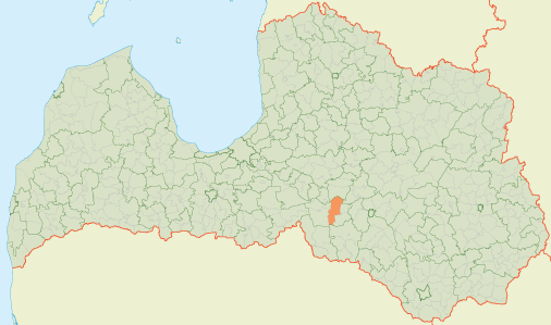 Location of Sece Parish in Latvia